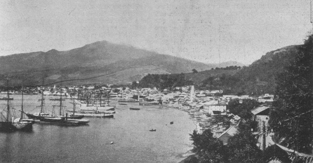 Saint-Pierre and Mount Pelée about 1902.